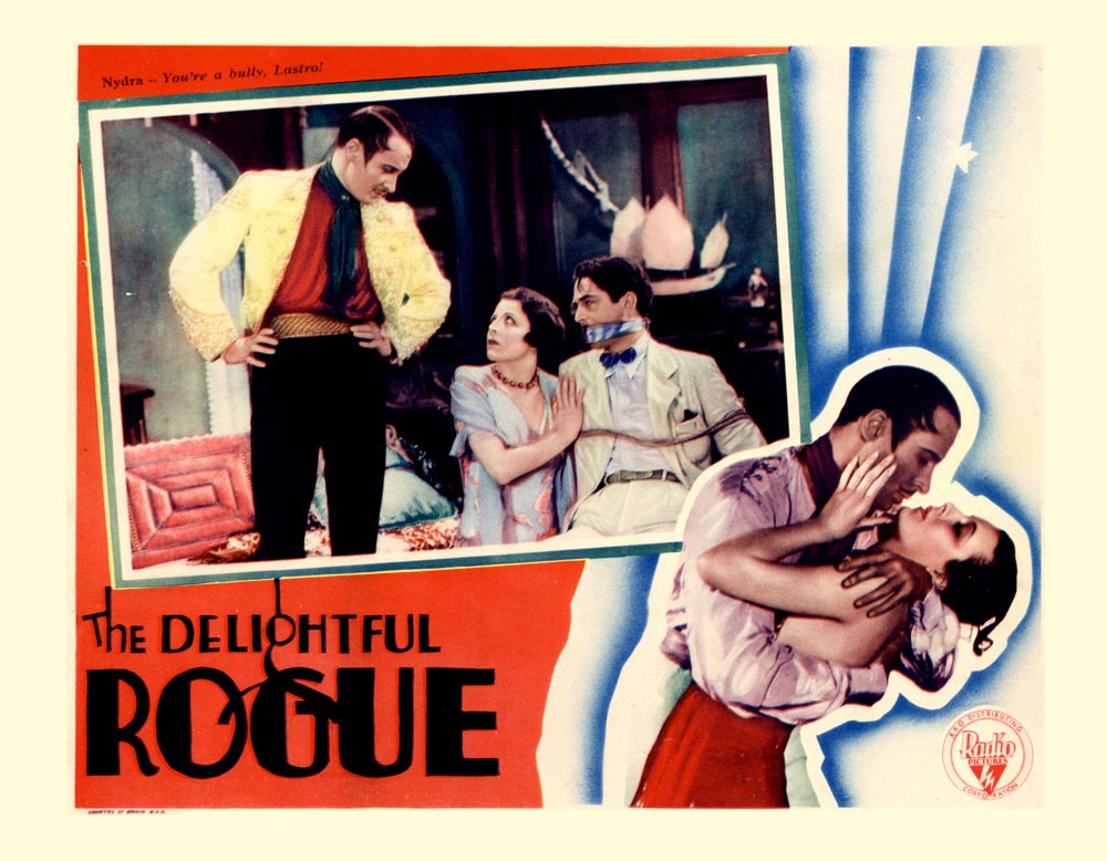 Lobby card for the 1929 film The Delightful Rogue. There are no copyright marks on the card. At bottom left is "Country of origin USA".